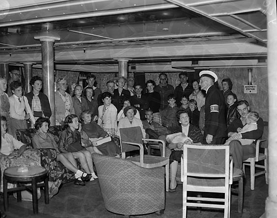 Teitl Cymraeg/Welsh title: Yr RMS Cambria newydd ar y gwasanaeth Caergybi i Iwerddon Ffotograffydd/Photographer: Geoff Charles (1909-2002) Nodyn/Note: Image shows visitors being shown around the new RMS Cambria at Holyhead which had been introduced to the Holyhead to Ireland service, by the ship guides. Dyddiad/Date: August 1, 1958 Cyfrwng/Medium: Negydd ffilm / Film negative Cyfeiriad/Reference: (gch19305) Rhif cofnod / Record no.: 3470007 Rhagor o wybodaeth am gasgliad Geoff Charles yn Llyfrgell Genedlaethol Cymru More information about the Geoff Charles Collection at the National Library of Wales